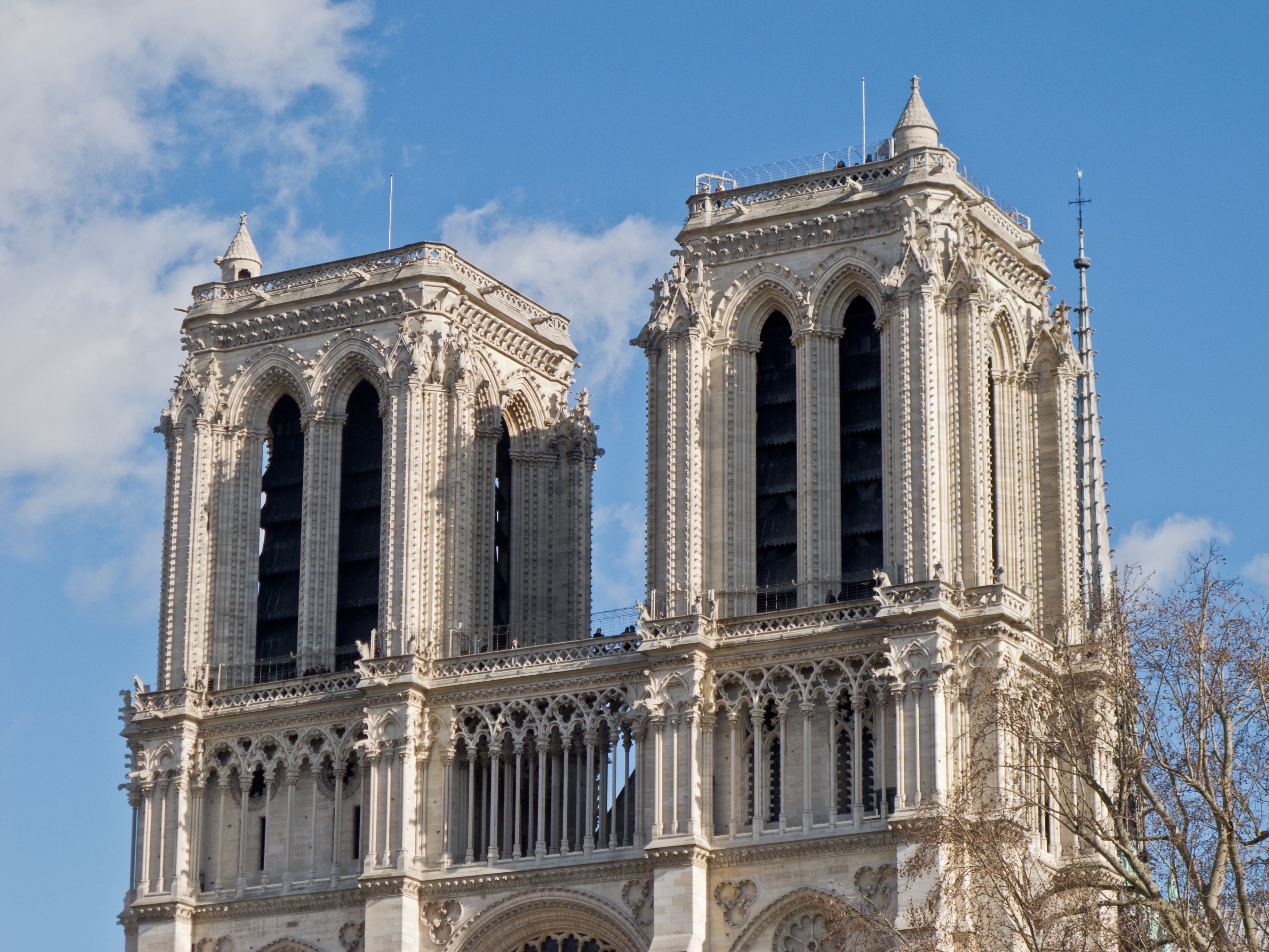 Towers of the Cathedral of Notre-Dame of Paris, France.